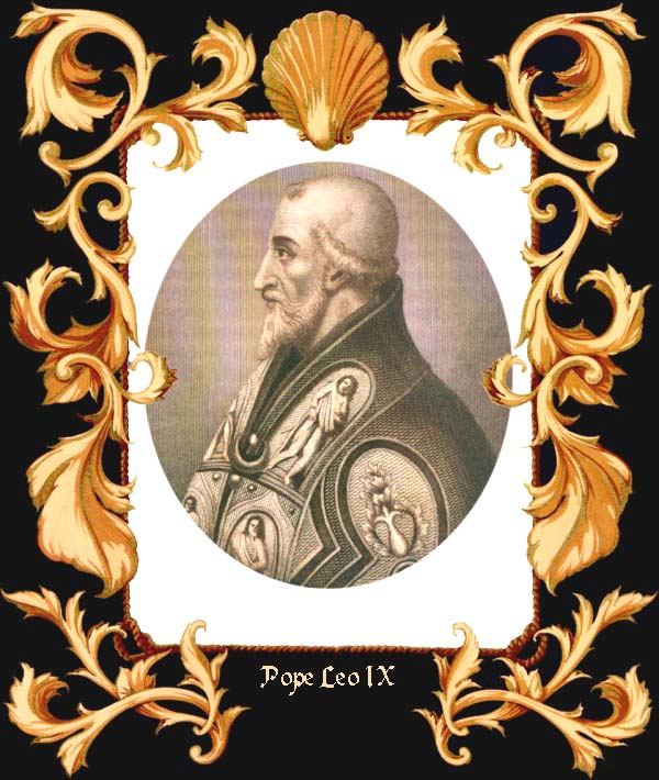 Pope Leo IX